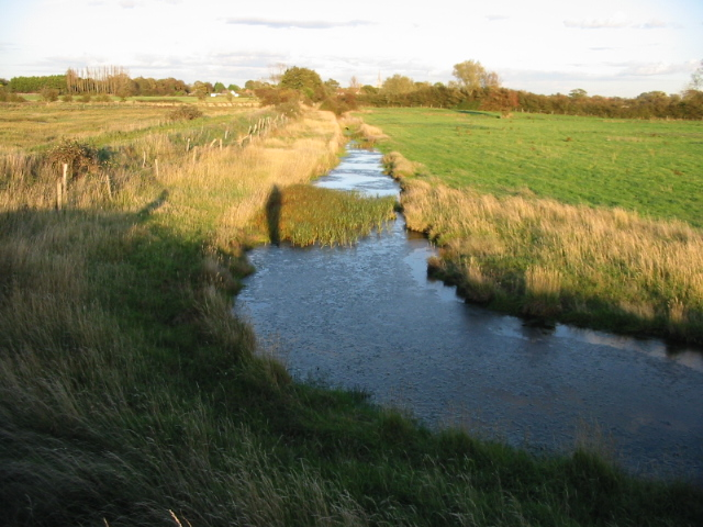 Ditch running around the inside of the sea wall